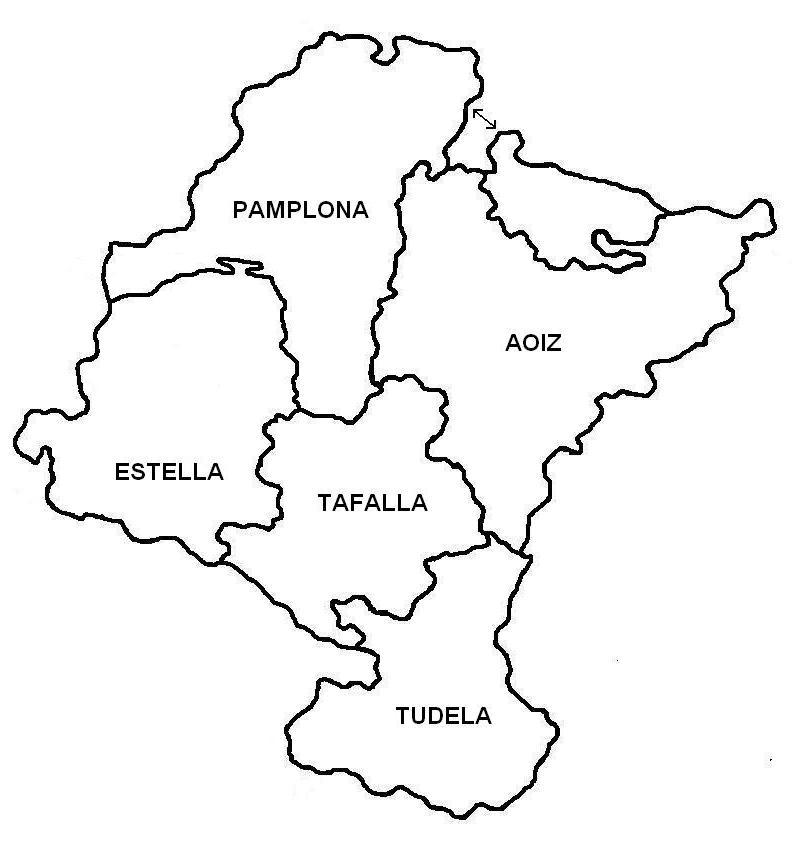 electoral districts in Navarre, Spain, during the early 20th century